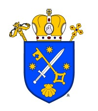 coat of arms